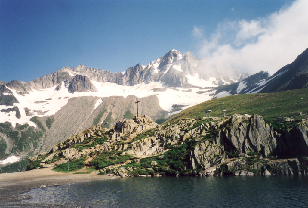 View of the Nufenen Pass, Switzerland, taken by the user.